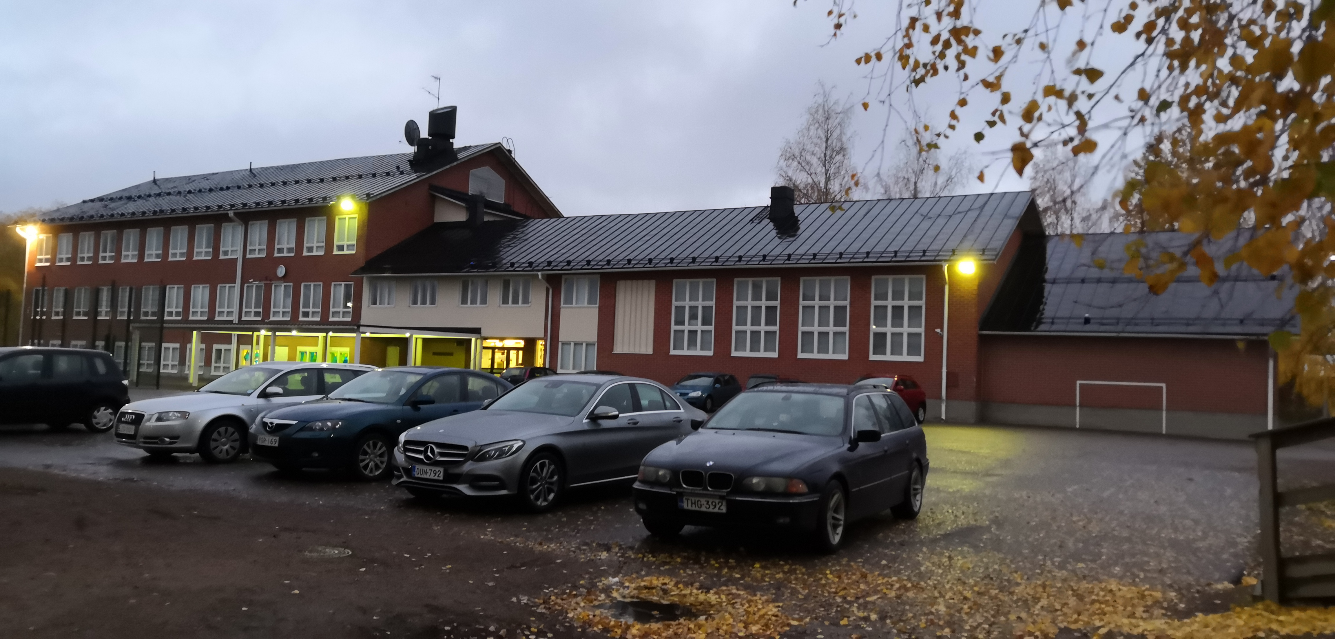 Korian koulun päärakennus lokakuussa 2019